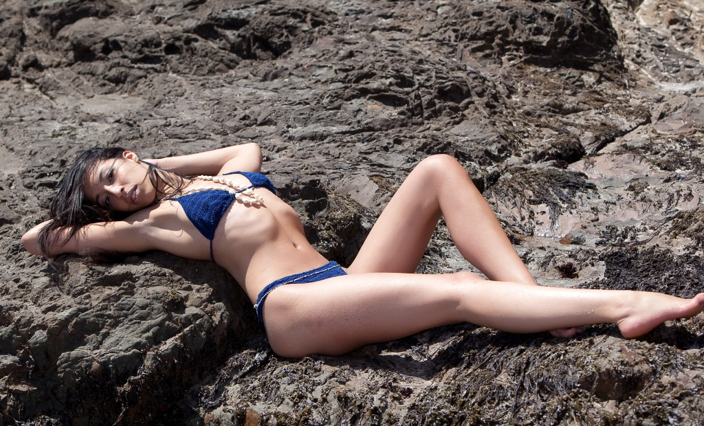 A woman wearing a blue bikini.